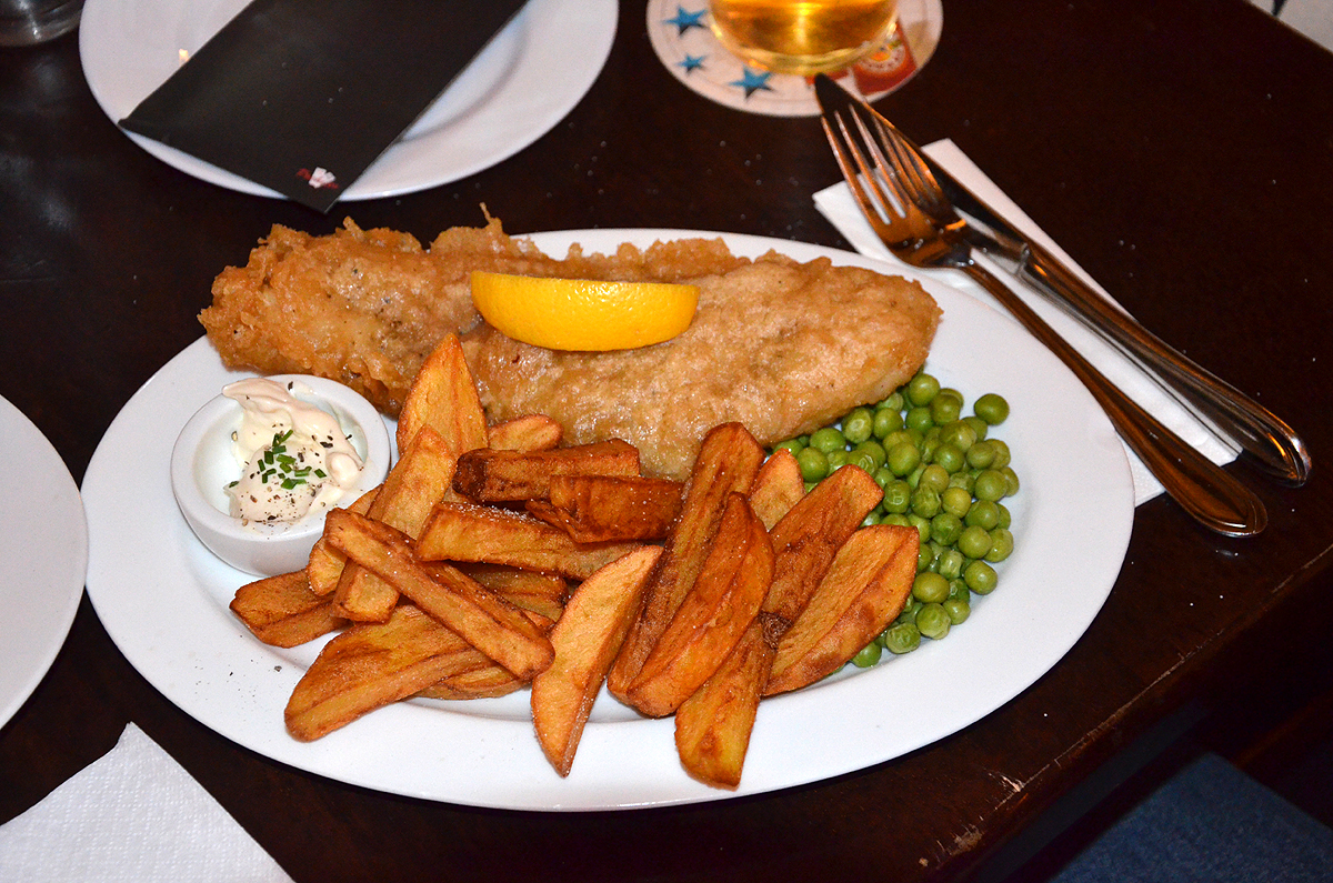 Fish and chips, seen in the Europa-Haus in the pub Jack the Ripper's London Tavern in Hanover ...